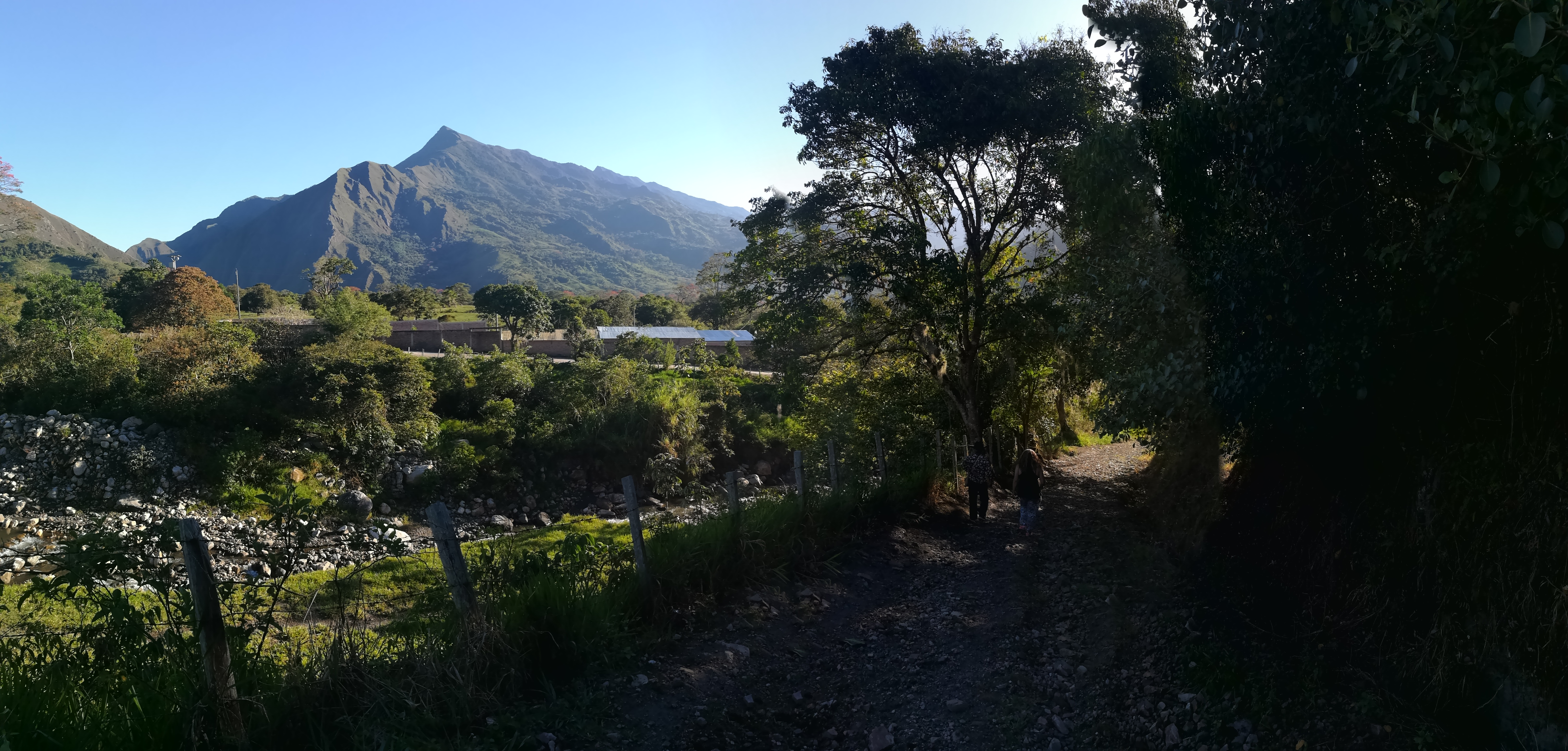 Labranzagrande little-known municipality, but with a great history. Surrounded by great mountains that generate life and hope for the evicted. Esta fotografía fue tomada en el municipio colombiano con código 15377.